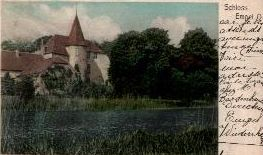 Castle Empel (Rees)